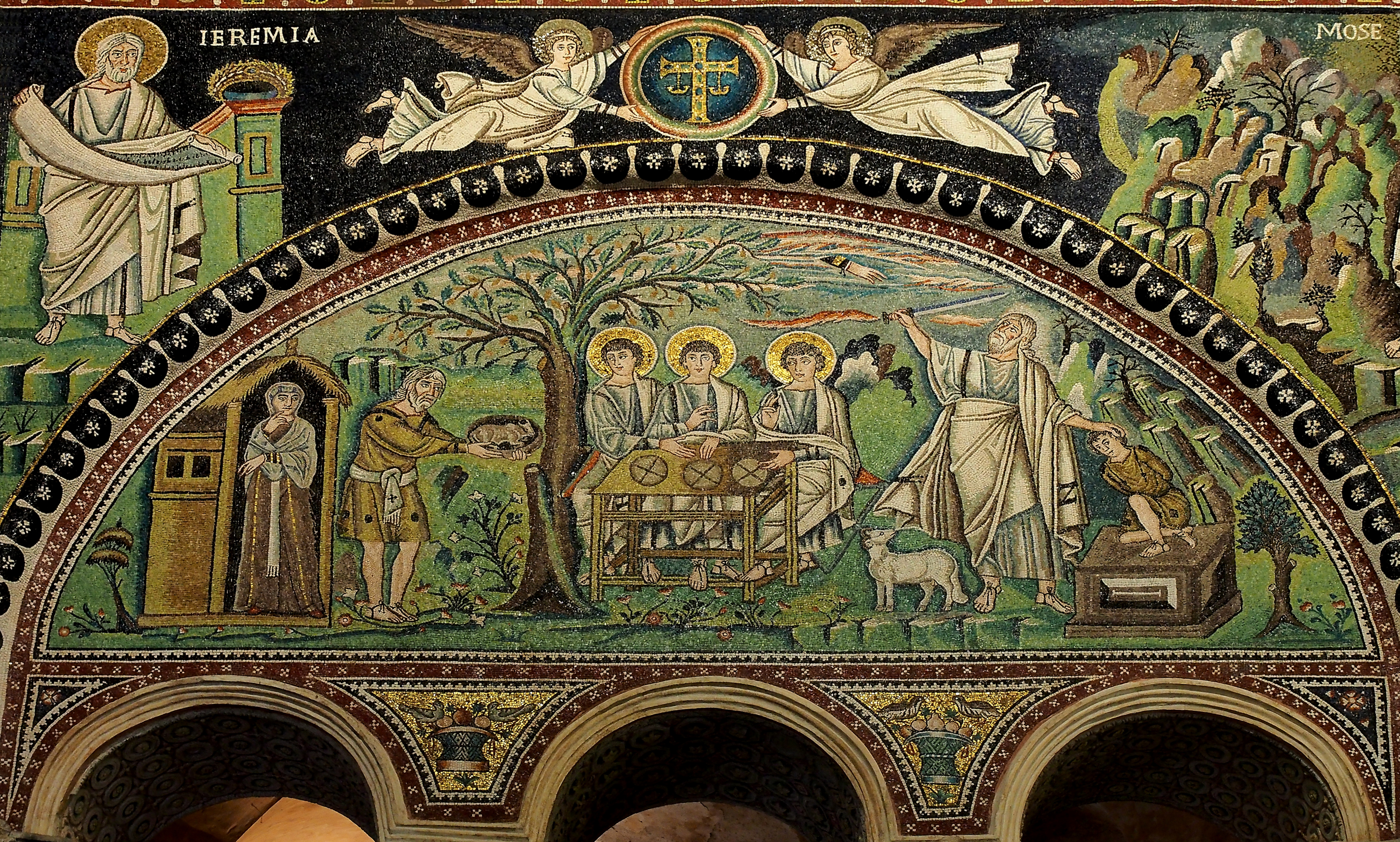 Mosaic from Old Testament "Sacrifice of Isaac". Basilica of San Vitale (built A.D. 547), Italy. UNESCO World heritage site.